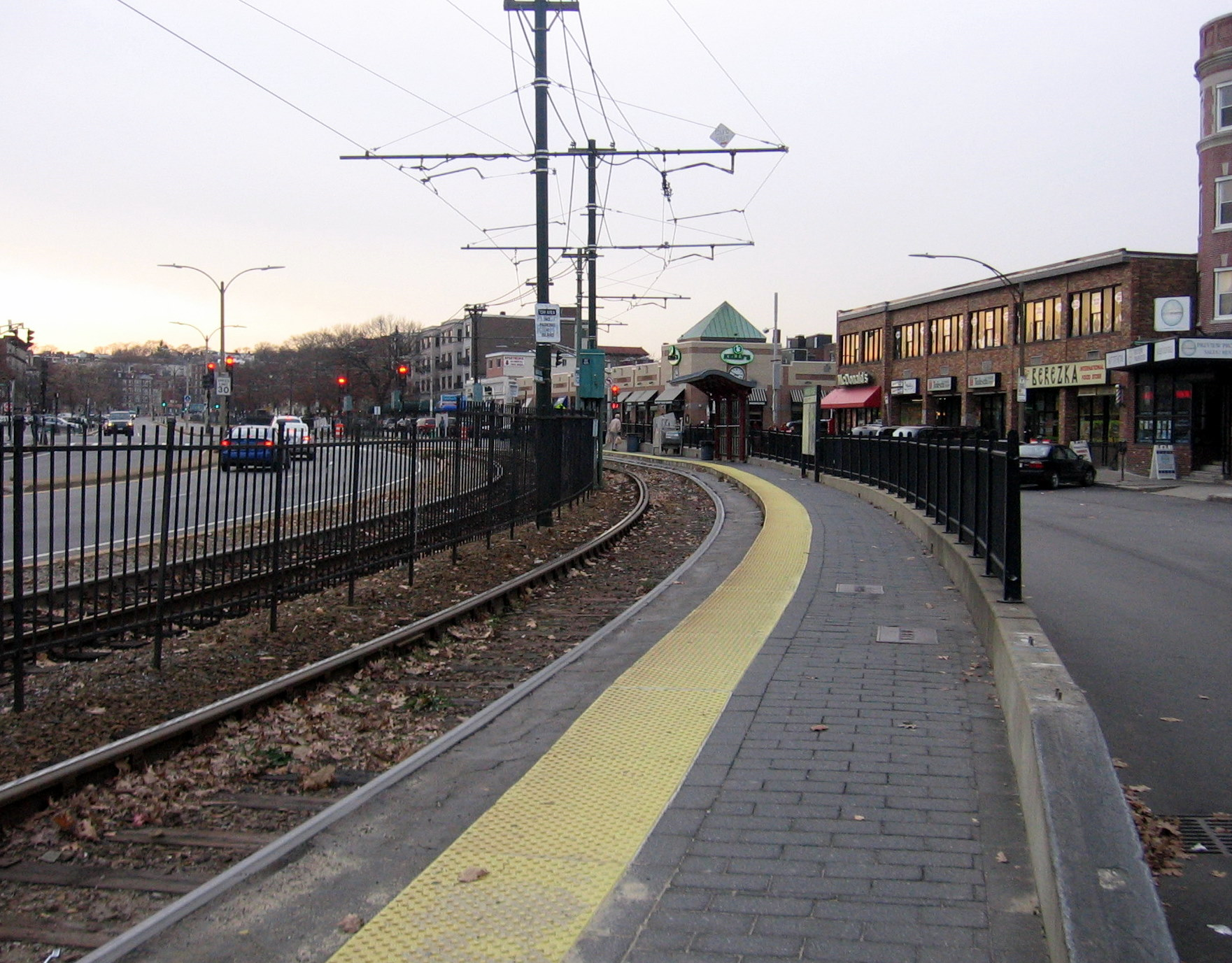 Outbound platform at Harvard Avenue